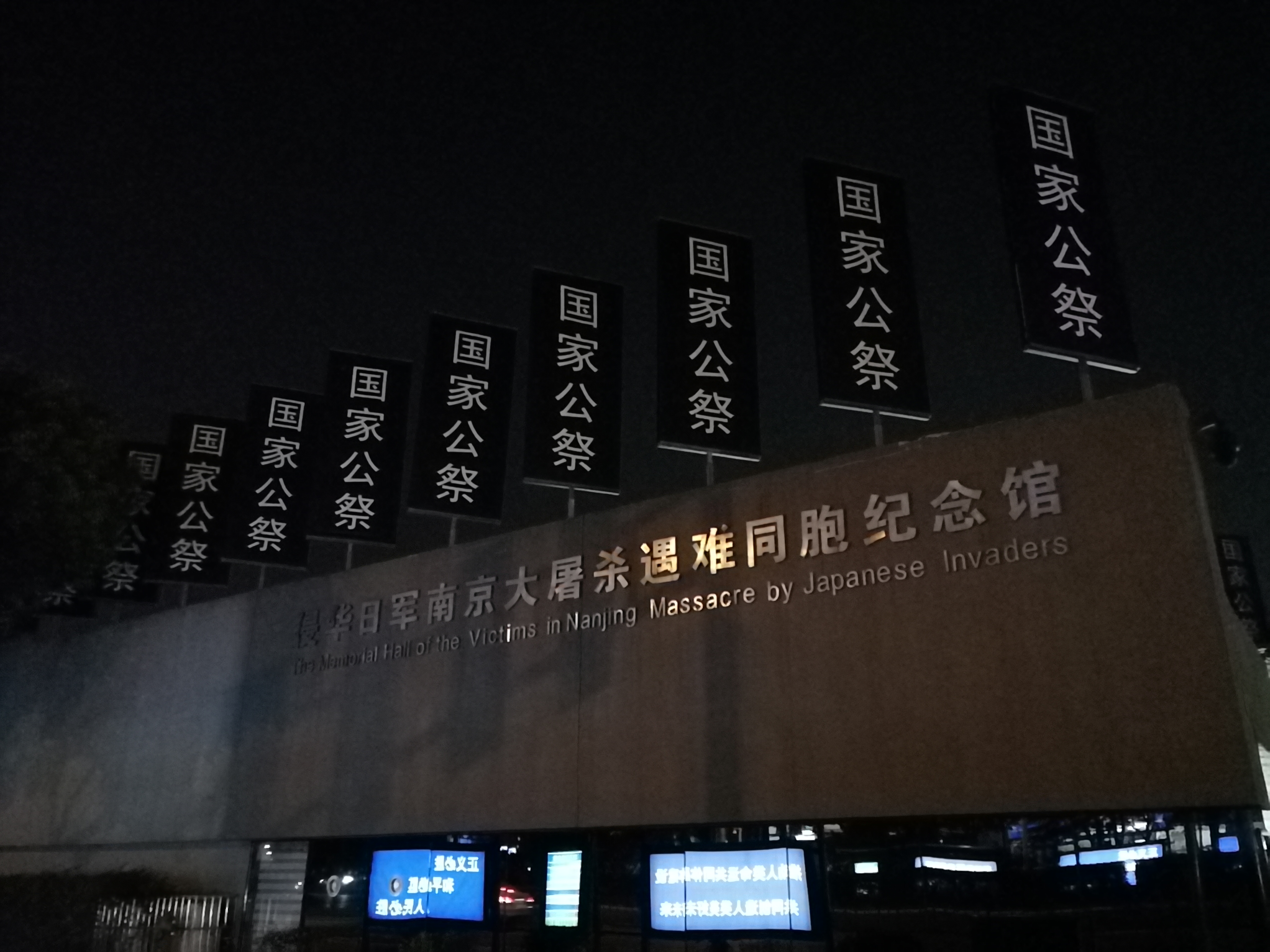 The gate of The Memorial Hall of the Victims in Nanjing Massacre by Japanese Invaders during National Memorial Day for Nanjing massacre victims